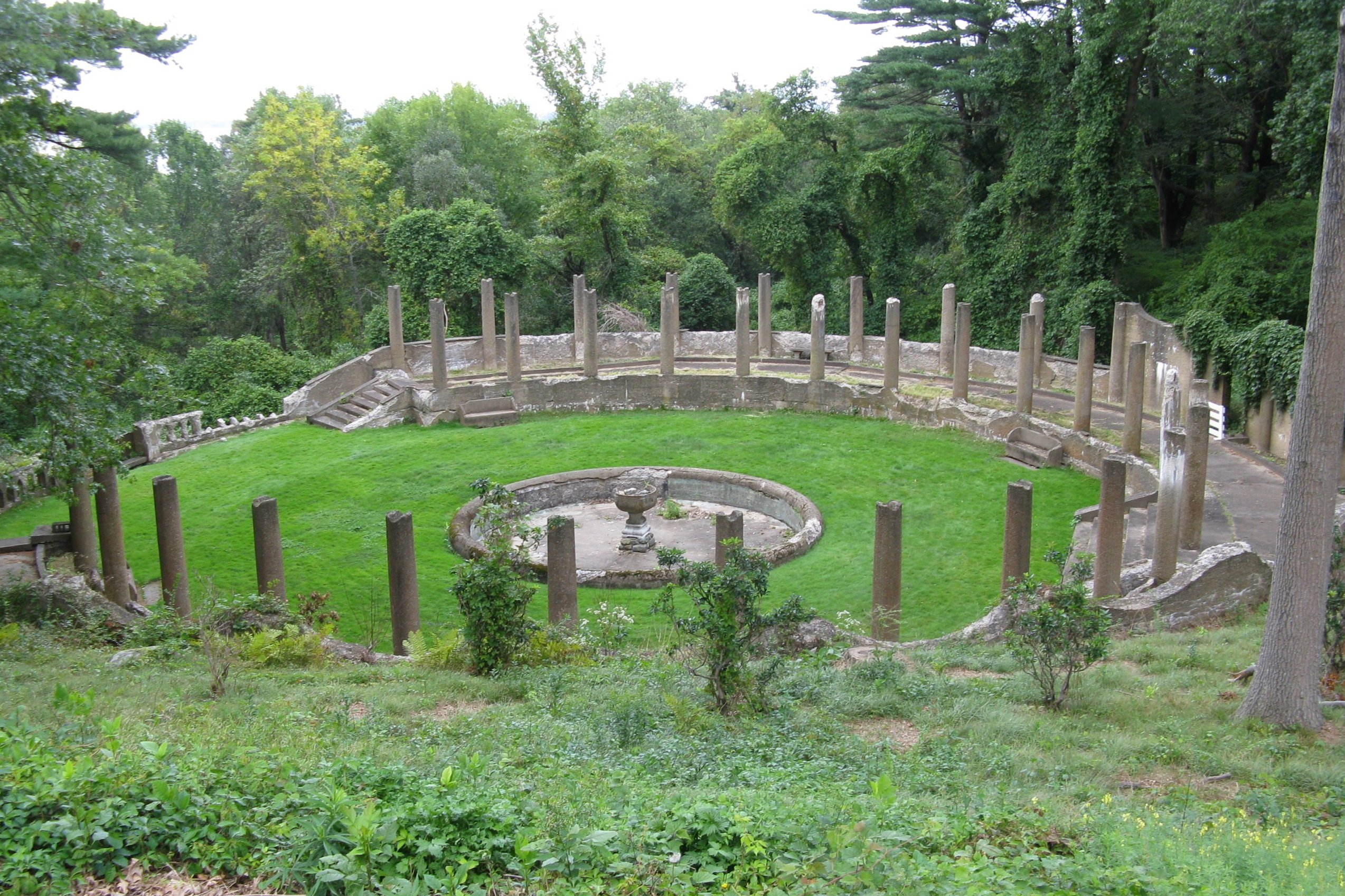 Rose Garden, Castle Hill, Ipswich Massachusetts